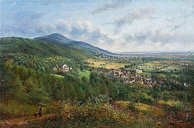 Seeheim an der Bergstraße